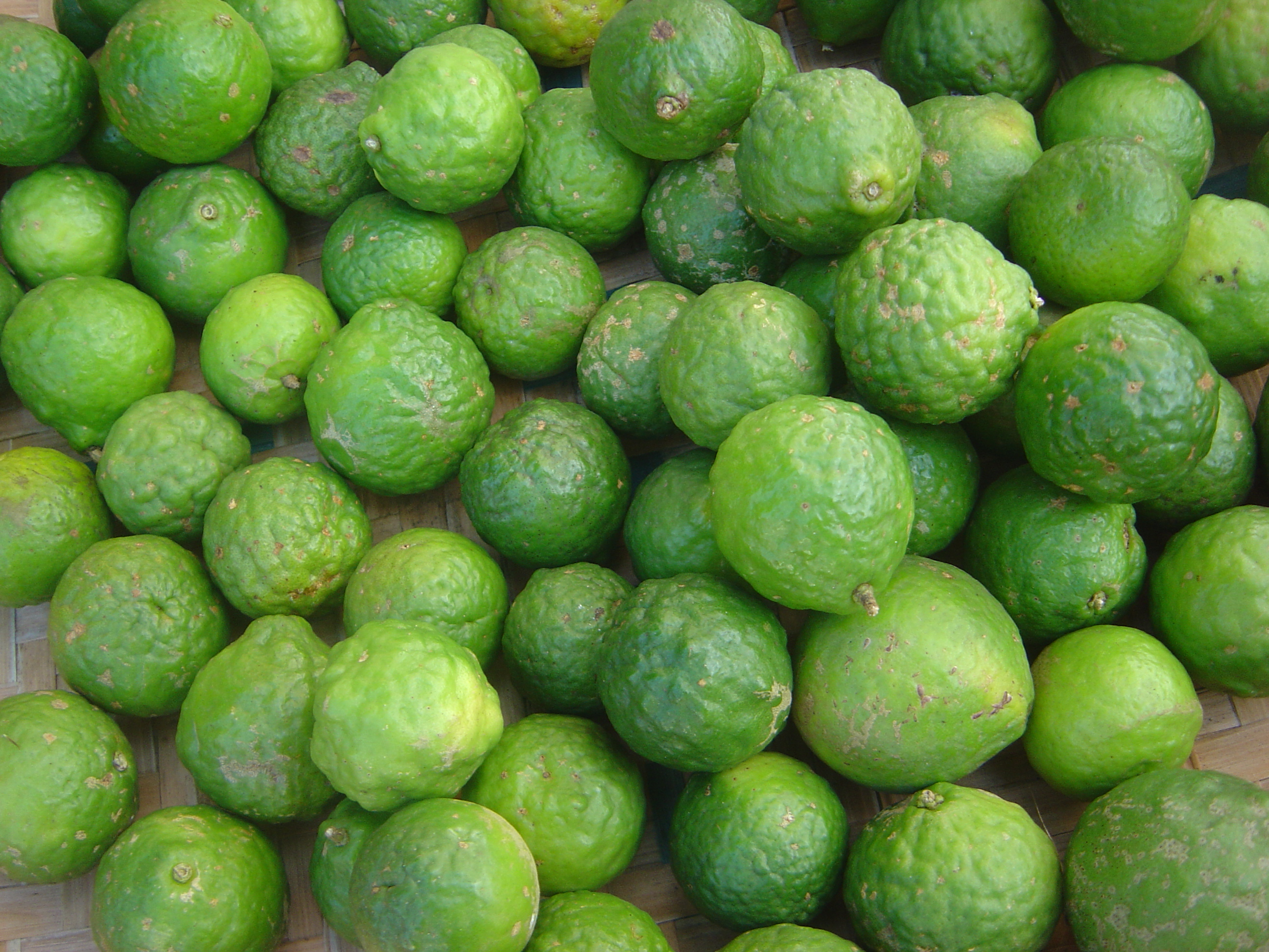 Citrus hystrix (sold on Réunion Island) July 29, 2005